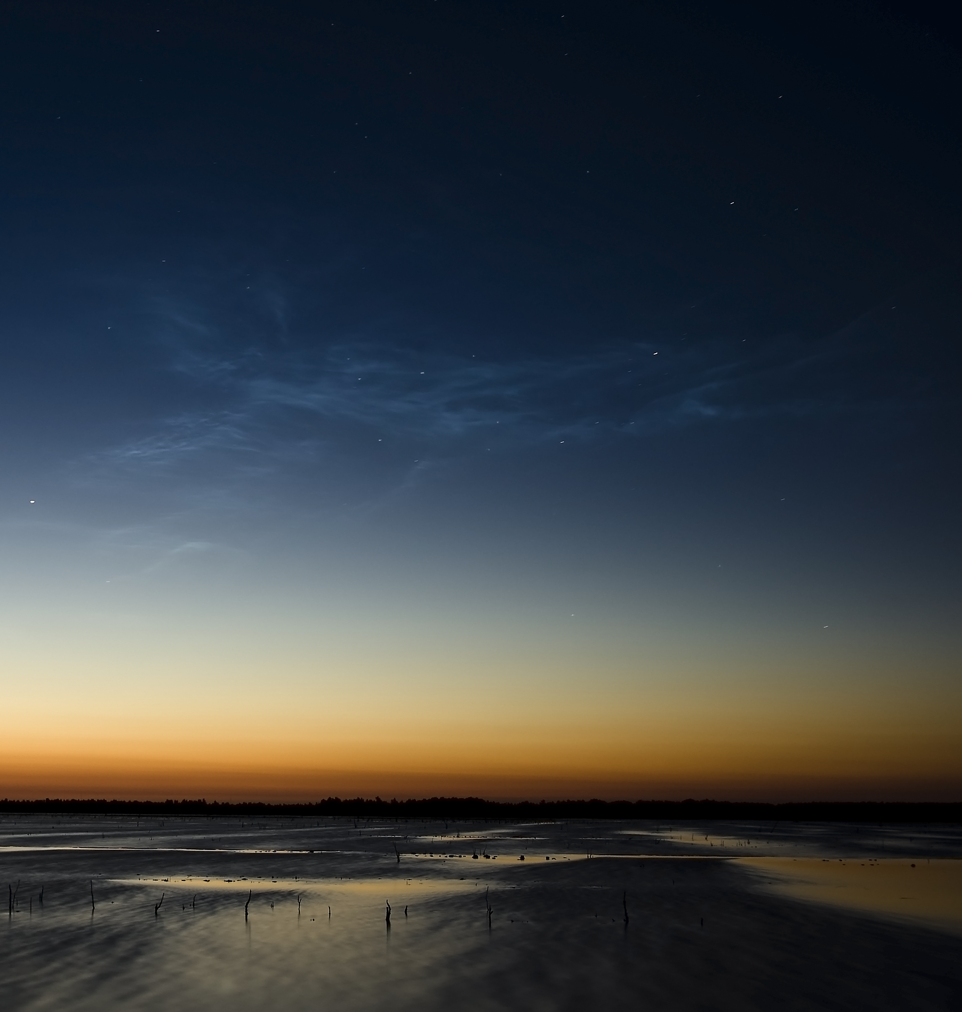 noctilucent clouds above water, night shot, long exposure, drenthe, netherlands